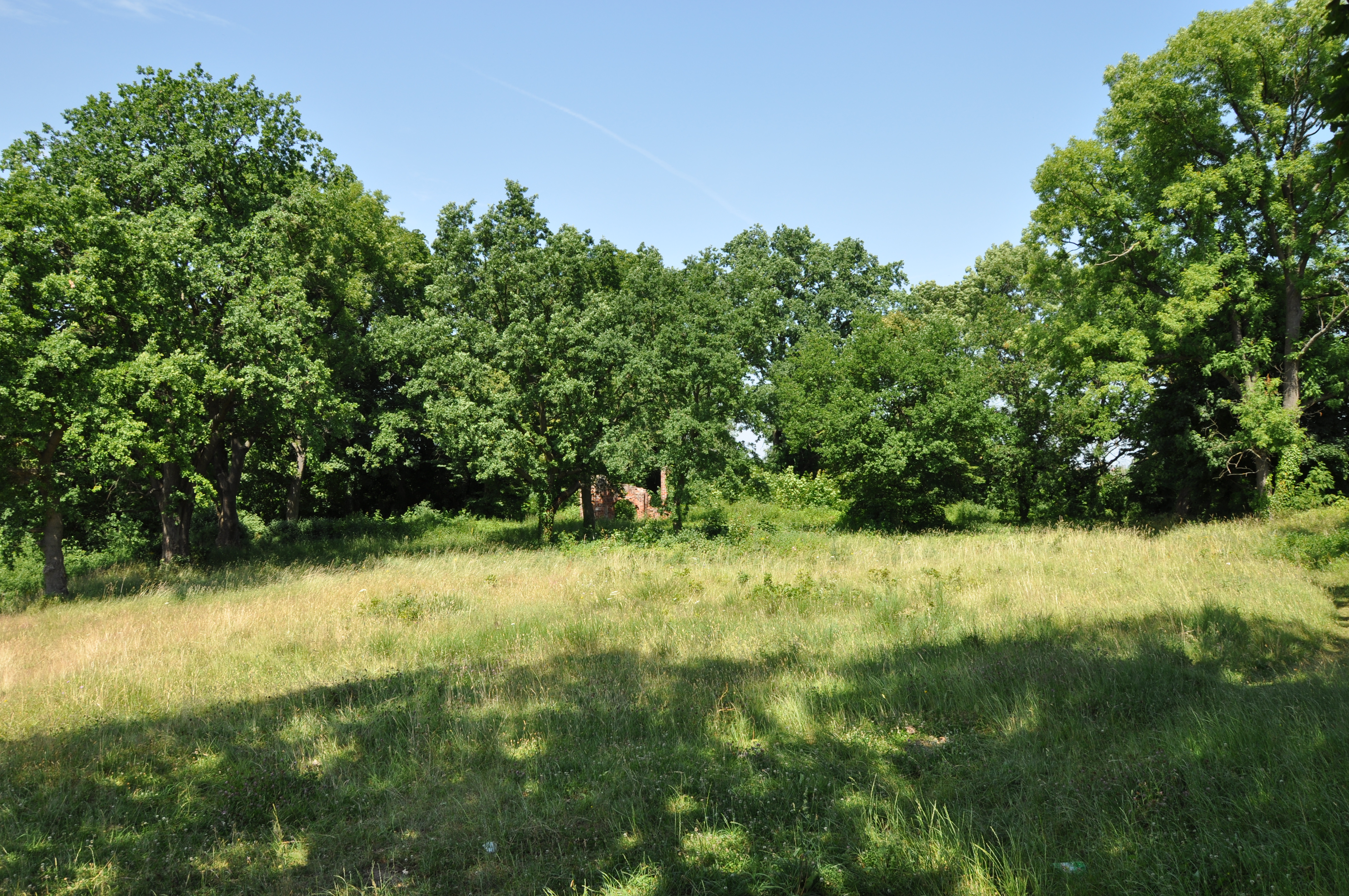 A glade on the Wyszkowo hill in Trzebiatów